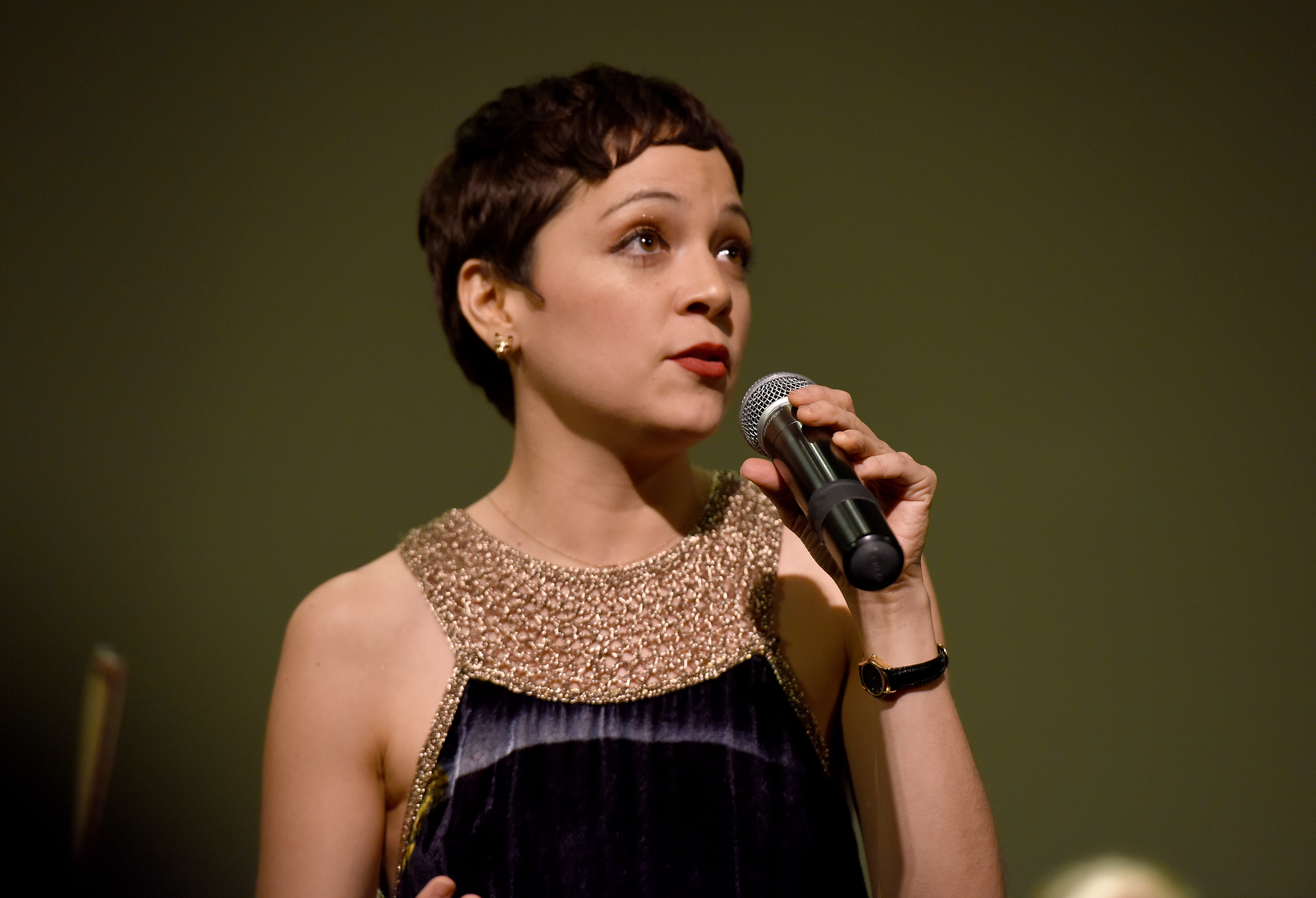 Natalia Lafourcade performing in 2014